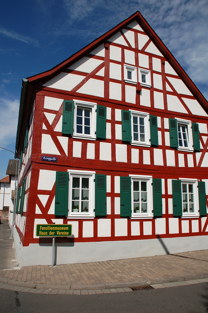 Museum Messel, Messel, Hesse, Germany